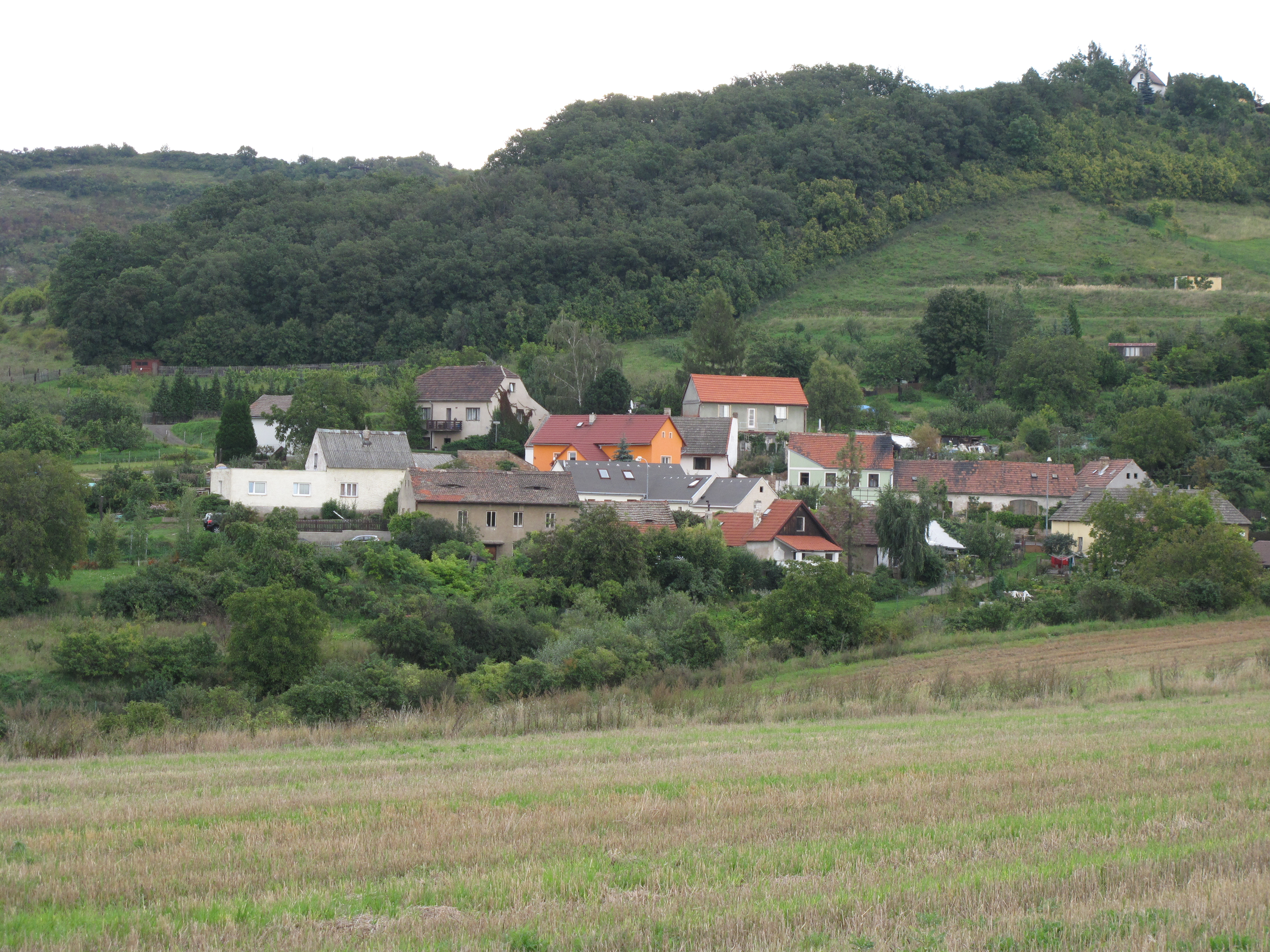 Malíč village in the view, Litoměřice District, Czech Republic.